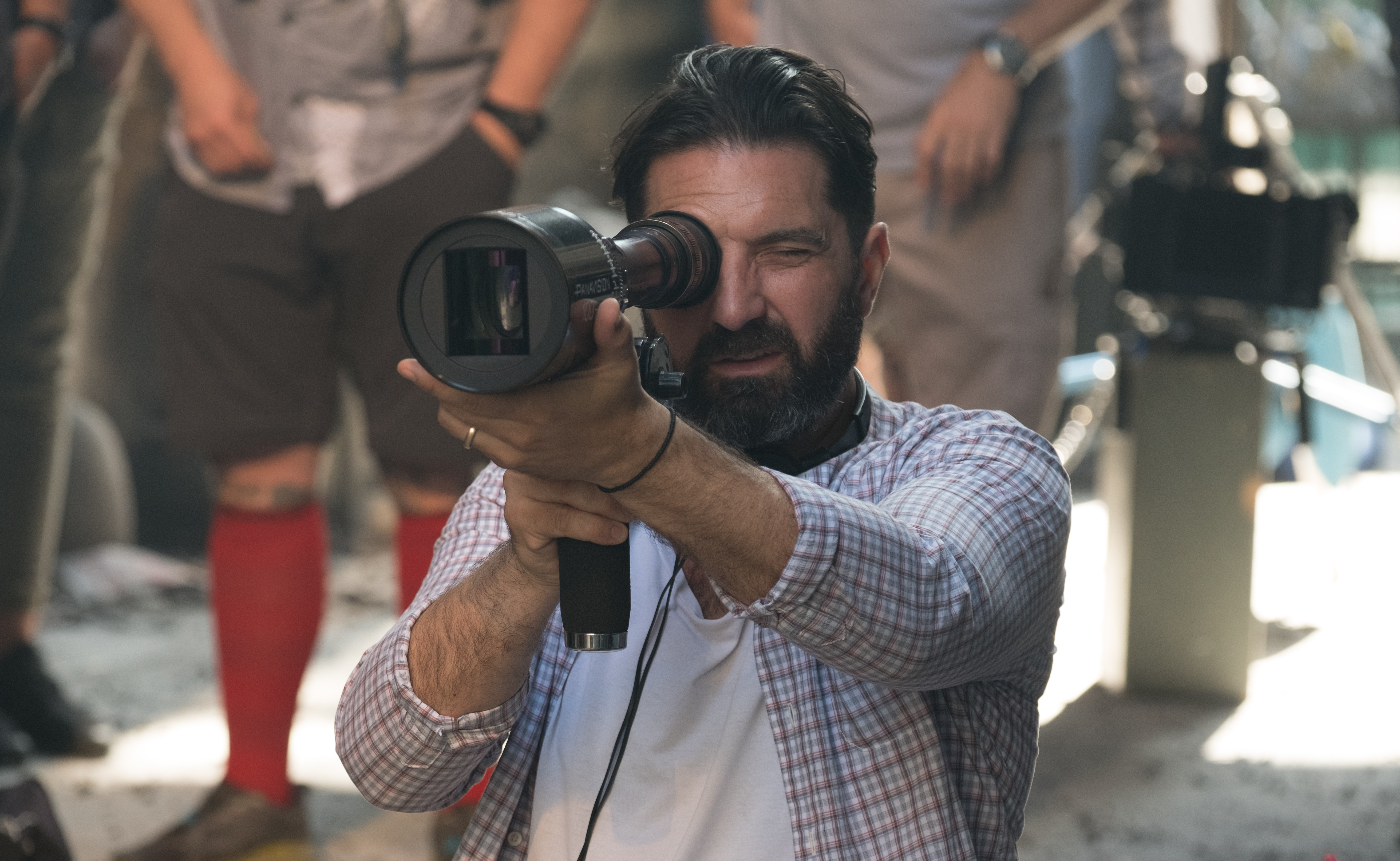 Drew Pearce, on the set of Hotel Artemis